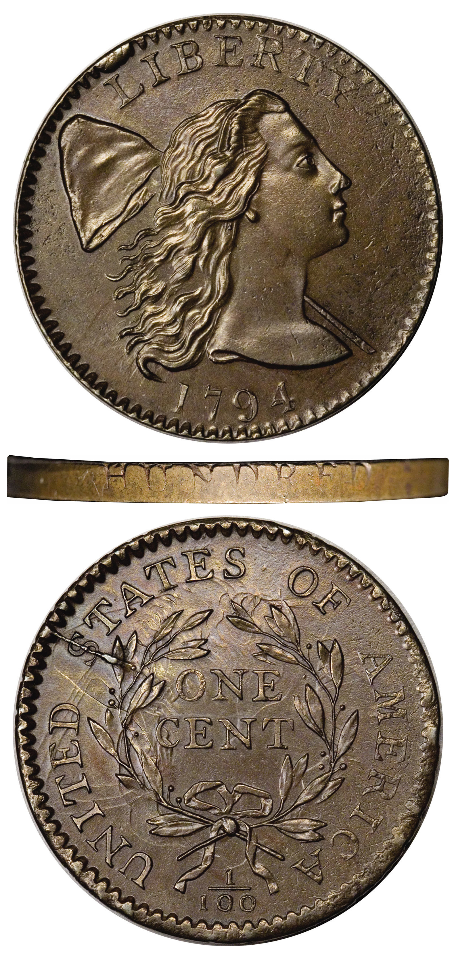 1794 1C 'Venus Marina' (S-32) alternate presentation (460-2034)